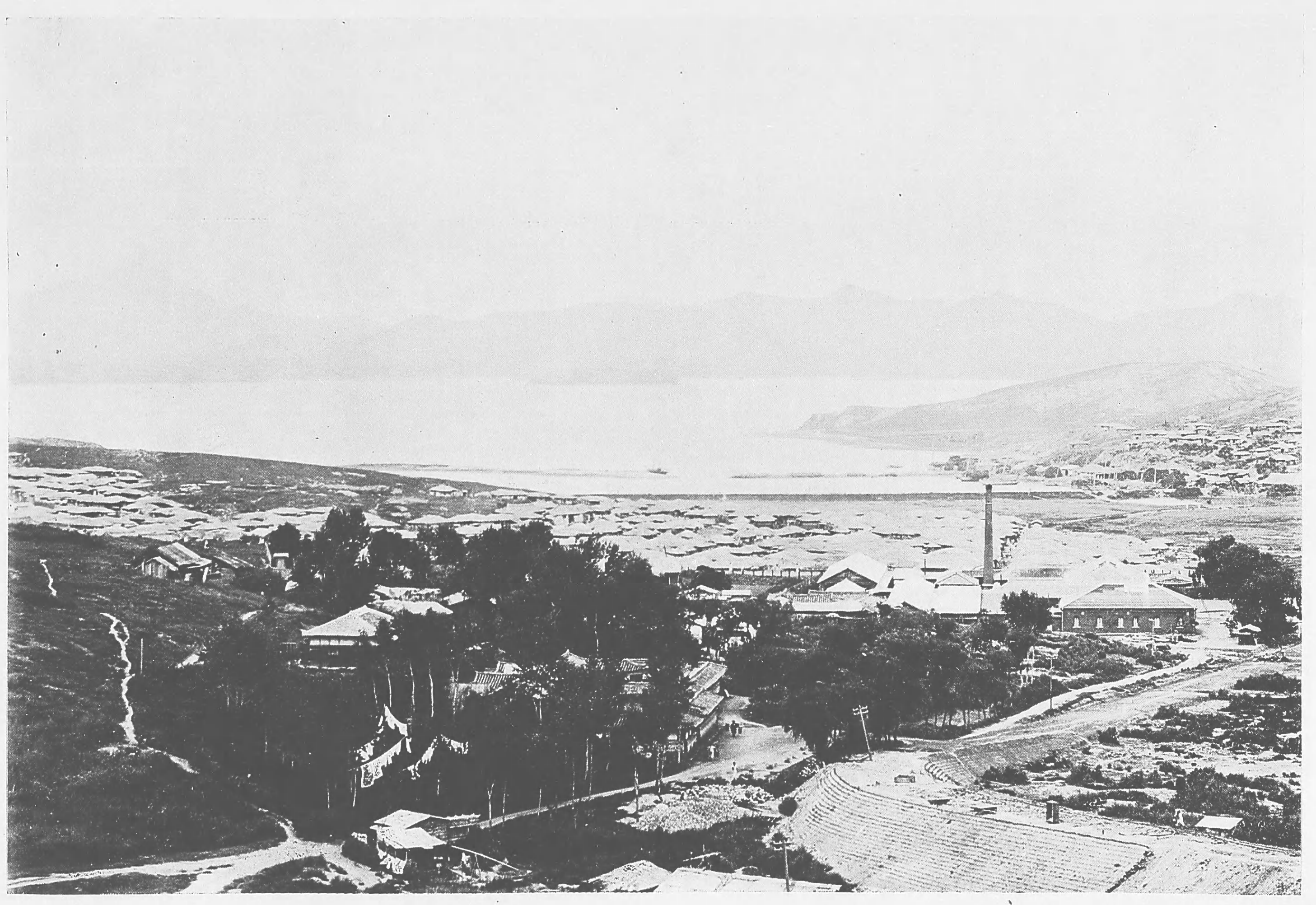 仁川各国公園より韓人部落を望む (View of Korean residents from the Incheon) international park, 1906